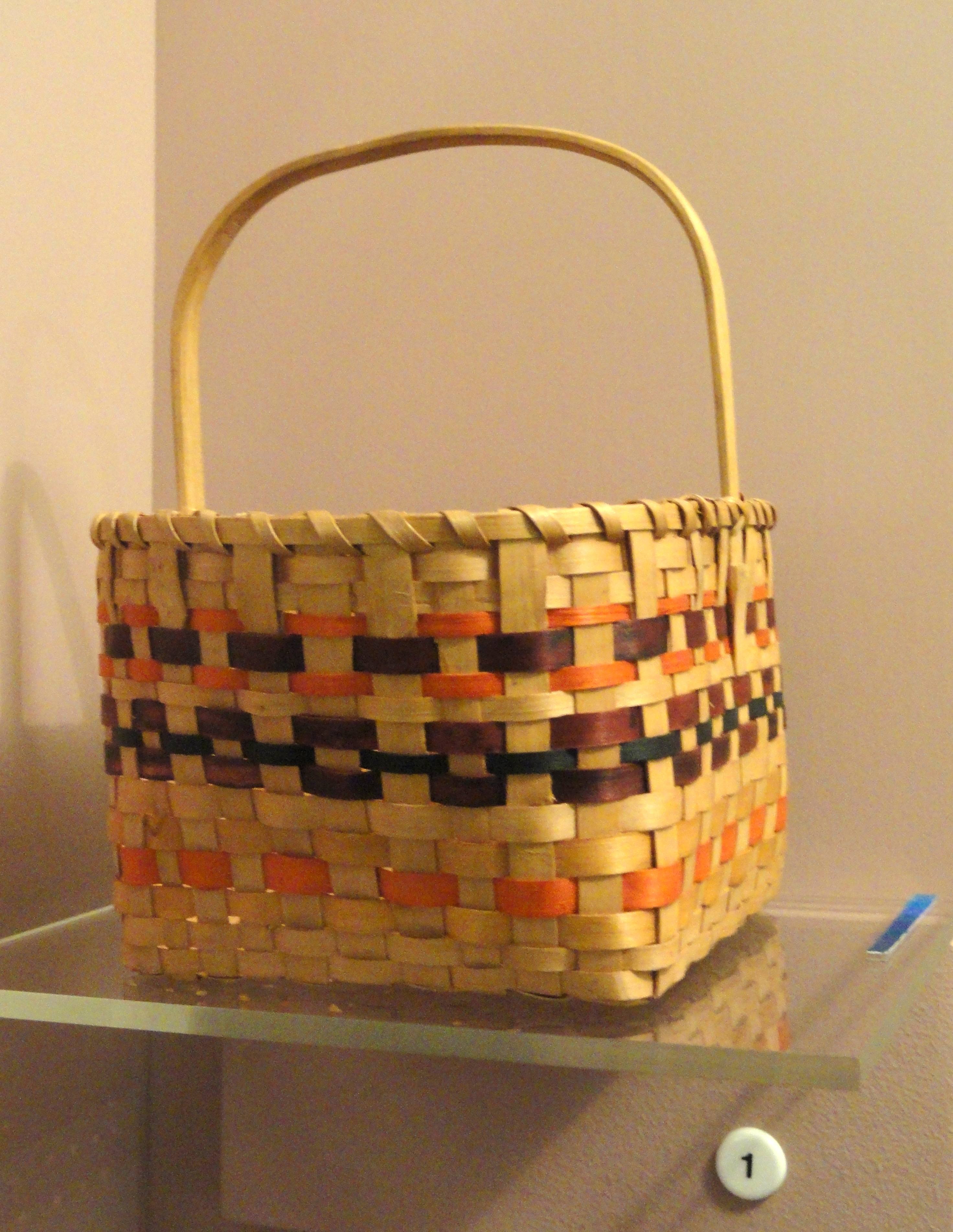 Basket (splint), Nauset or Wampanoag, collected in Barnstable MA in 1892. Exhibit from the Native American Collection, Peabody Museum, Harvard University, Cambridge, Massachusetts, USA. Photography was permitted without restriction; exhibit is old enough so that it is in the public domain.